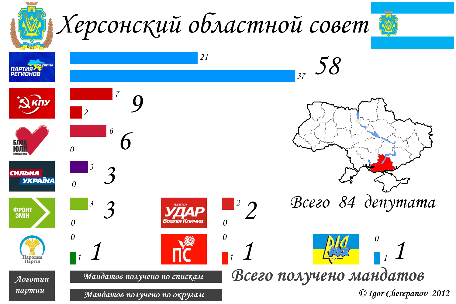 Results of Zakarpatskay Oblast local election 2010